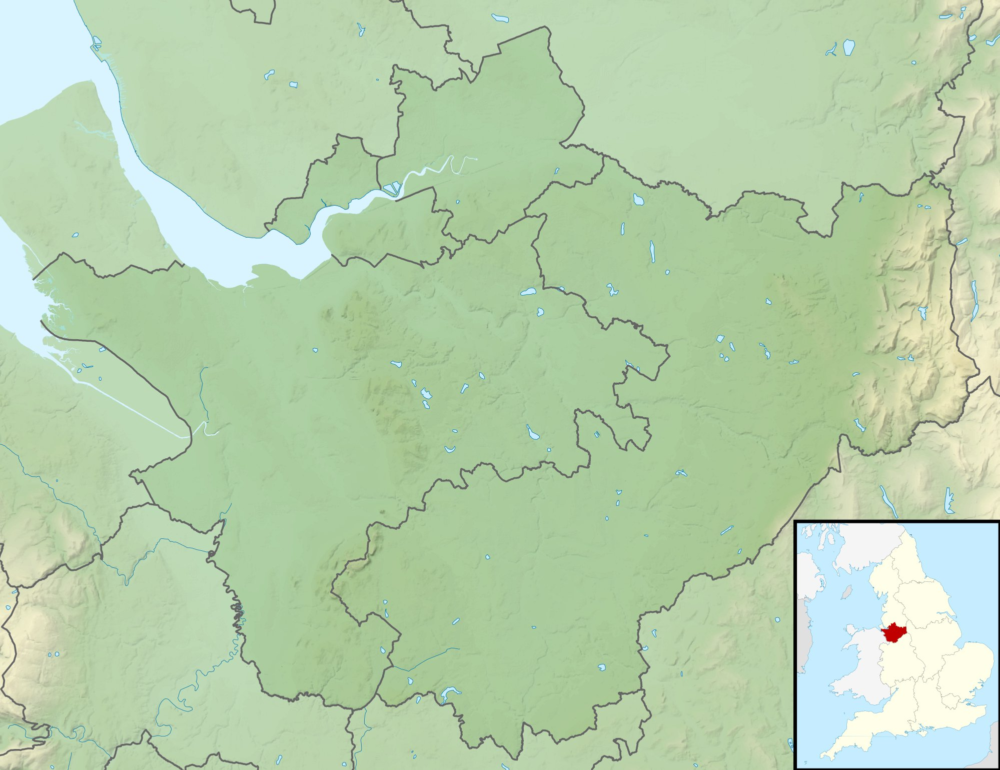 Relief map of Cheshire, UK. Equirectangular map projection on WGS 84 datum, with N/S stretched 165% Geographic limits: West: 3.15W East: 1.95W North: 53.50N South: 52.94N